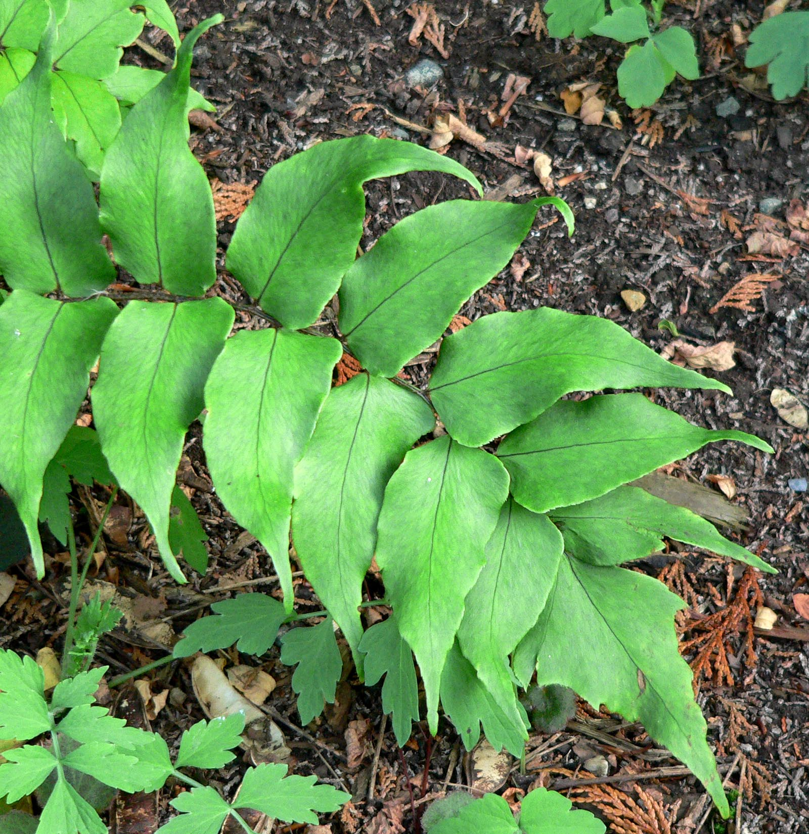 Photo of Cyrtomium falcatum at the VanDusen Botanical Garden in Vancouver